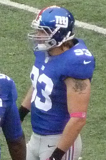 NY Giants defense vs the Browns, 2012